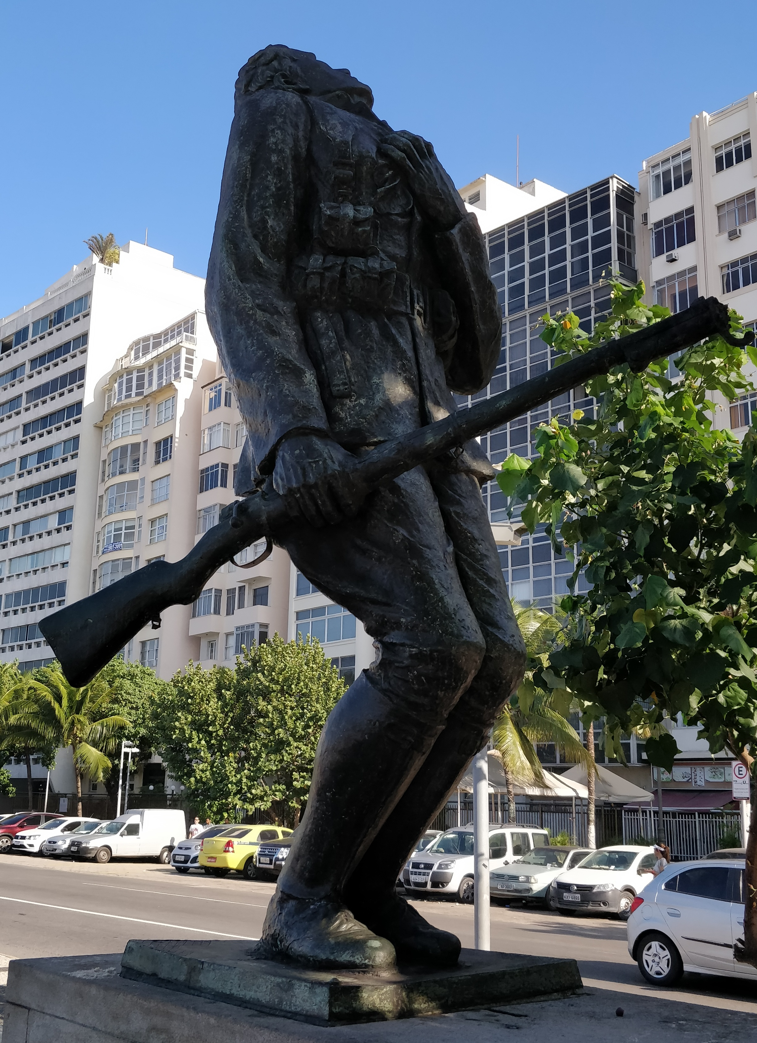 Statue of Antônio de Siqueira Campos on Copacabana, Rio de Janeiro.